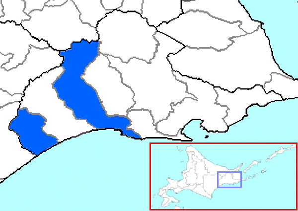 The location of Kushiro in Kushiro Subprefecture, Hokkaido Prefecture, Japan.